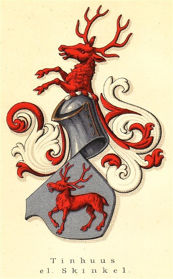 Coat of arms of the Skinkel (Tinhuus) family.